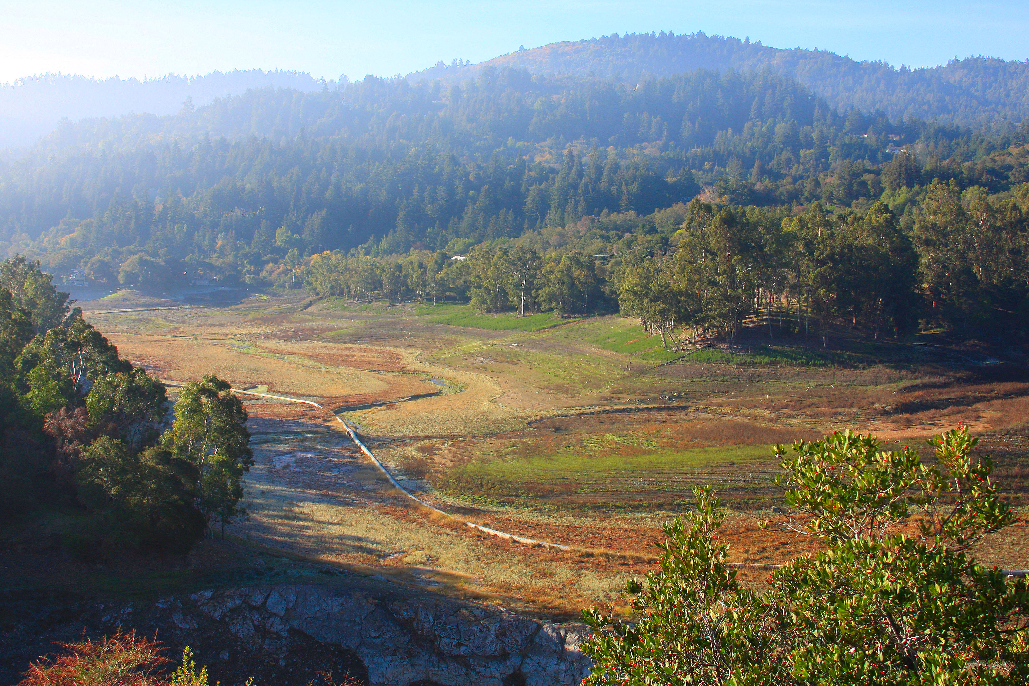 This part of Lexiongton Reservoir is the location of the old town of Alma, California.